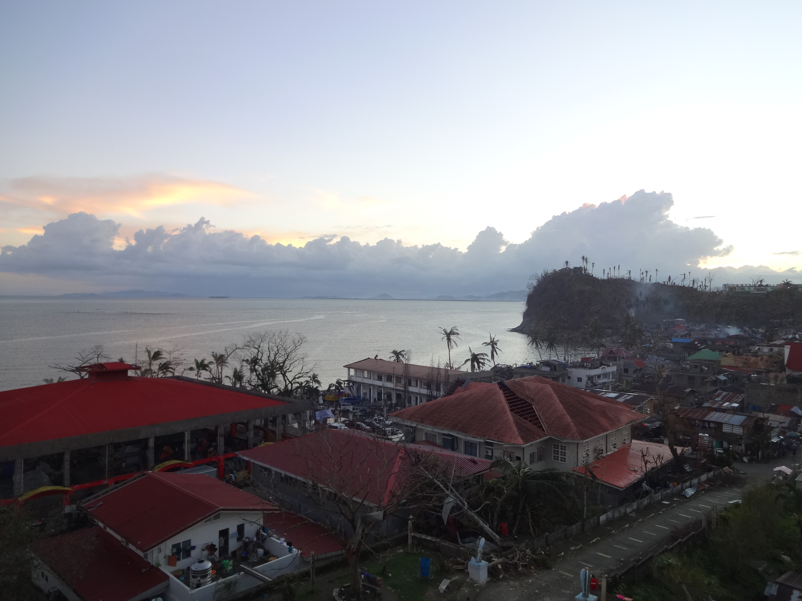 Basey, Samar after the devastation wrought by Typhoon Haiyan (local name: Yolanda) on November 8, 2013.